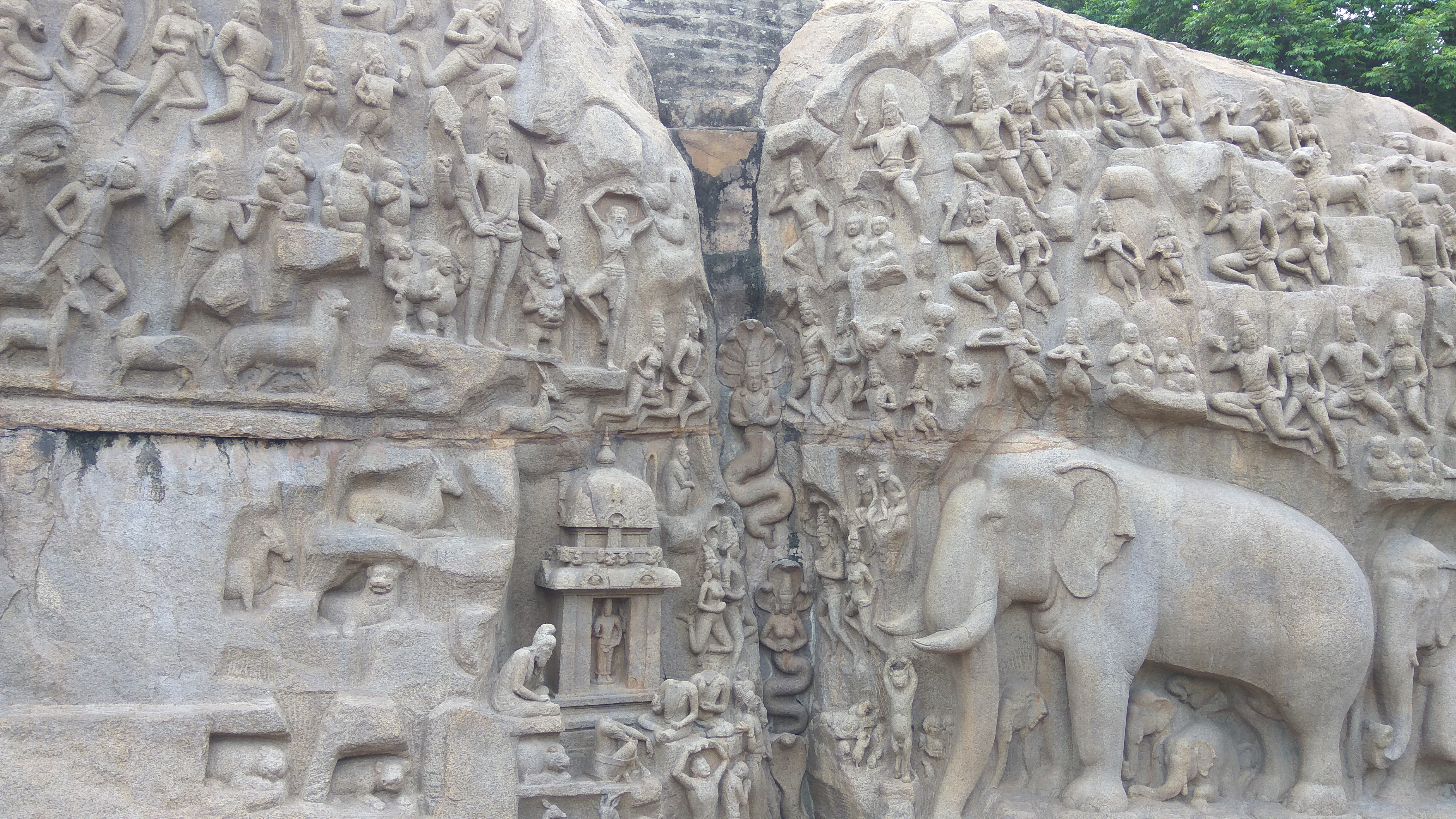 Bhagiratha's Penance or Arjuna Penance